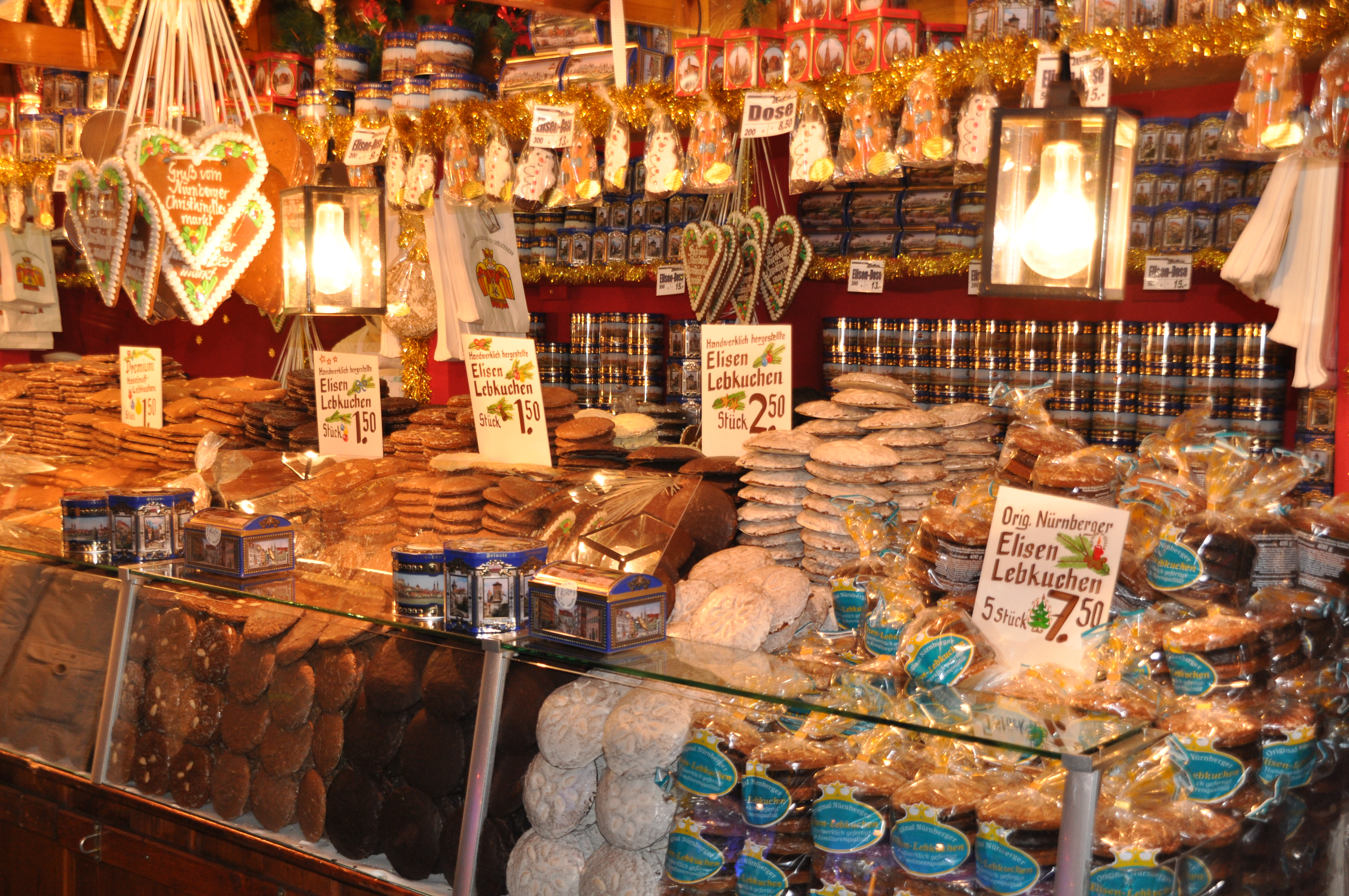 Gingerbread